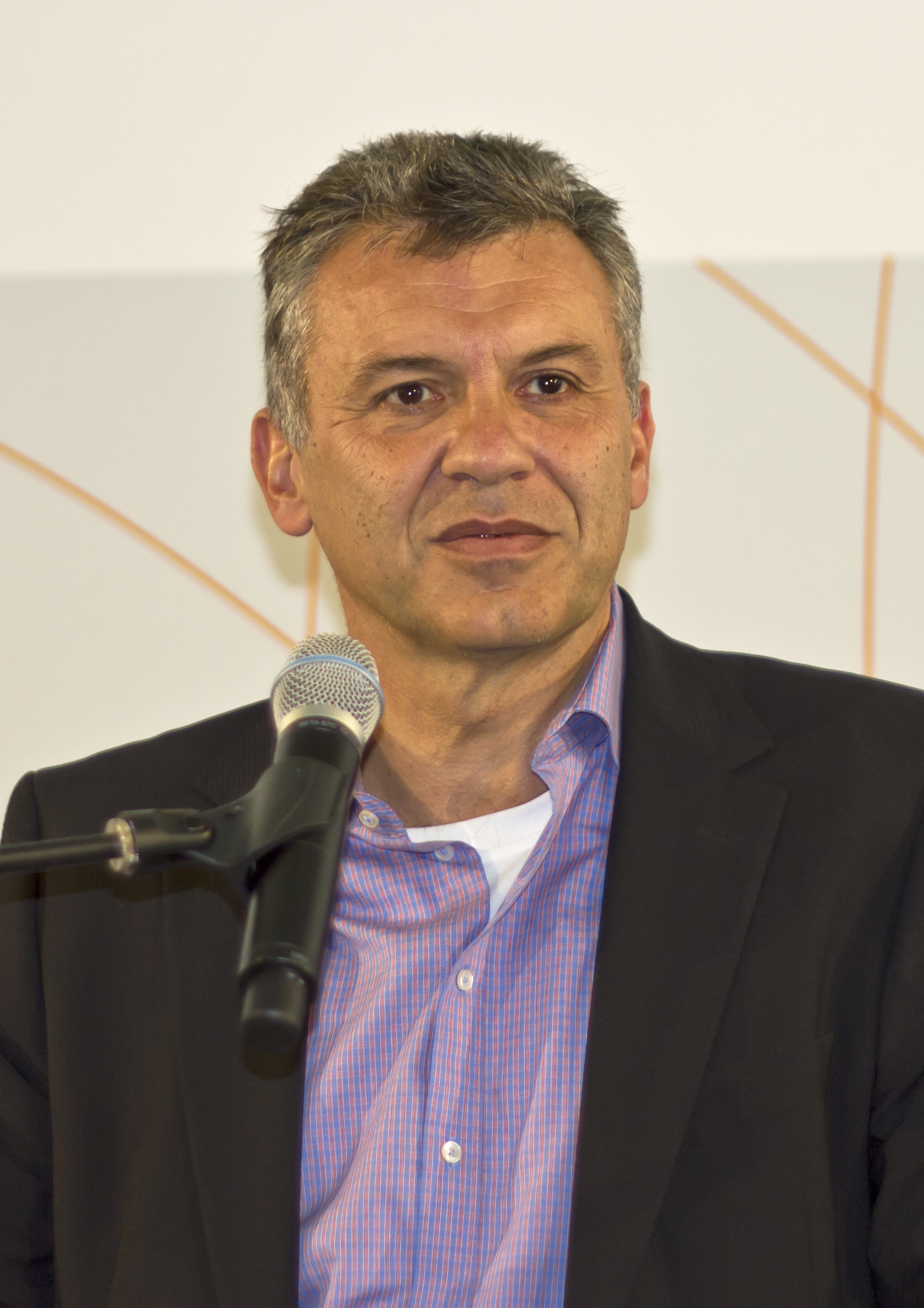 Werner Gatzer, a council in the Ministry of Finance of Germany